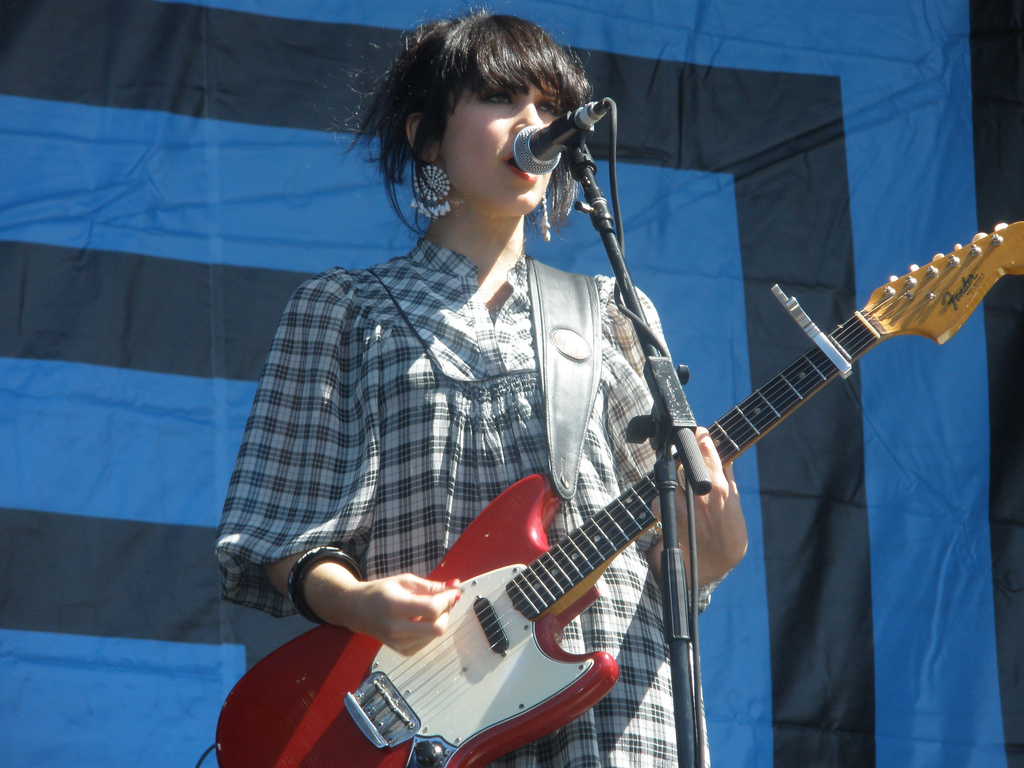 Lead singer Juanita Stein of Howling Bells at V Festival, Sydney, 28th March, 2009.